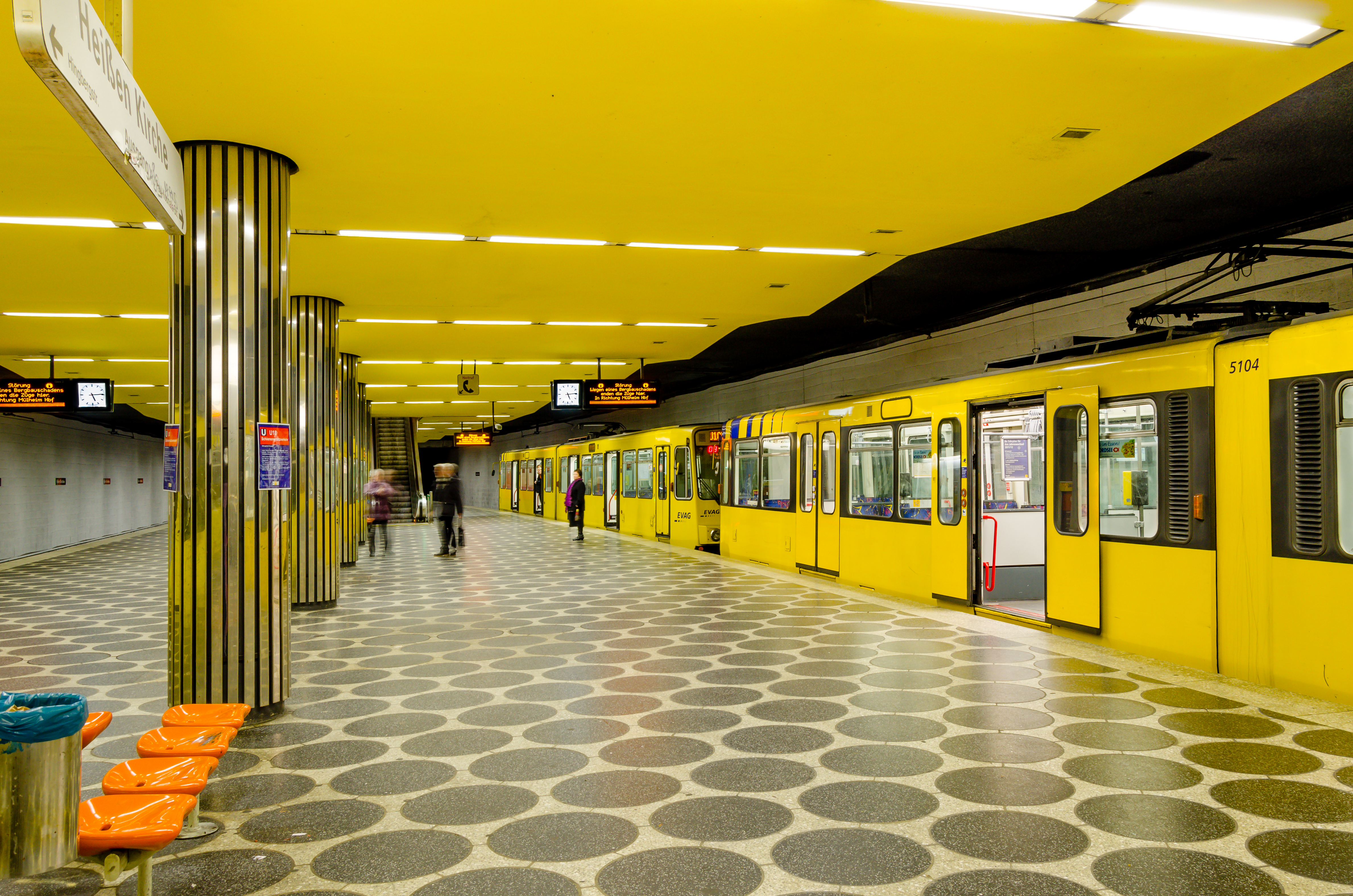 Underground station Heißen Kirche